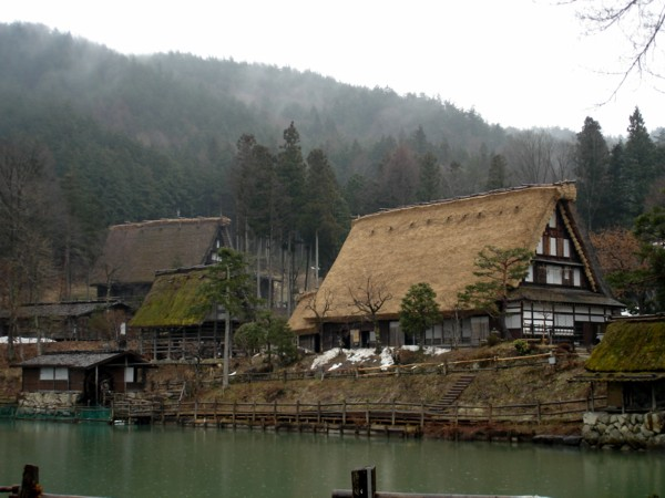 This is a picture of the Hida Minzoku Mura Folk Village near Takayama, Japan.